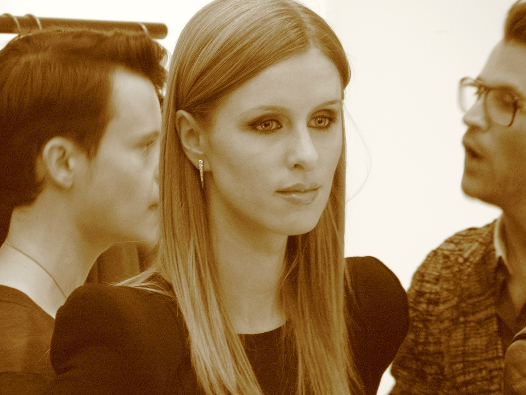 Nicky Hilton at Lanvin New York for Fashion's Night Out, September 2010.